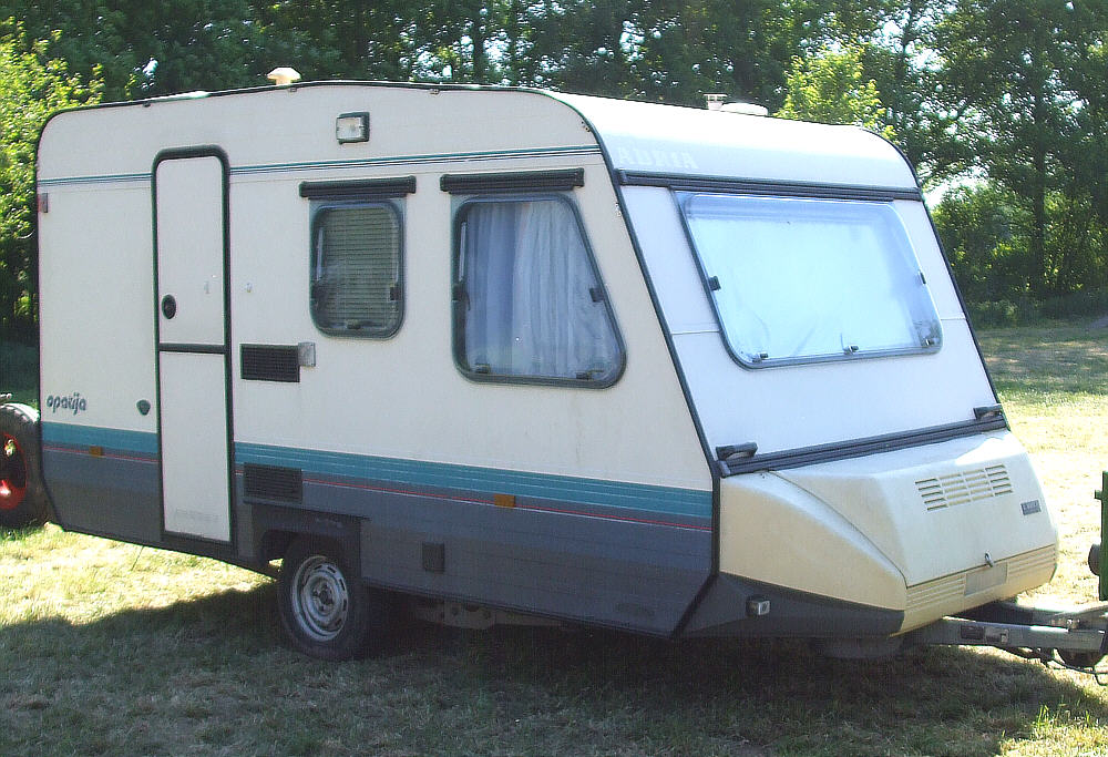 Adria travel trailer „Opatija“